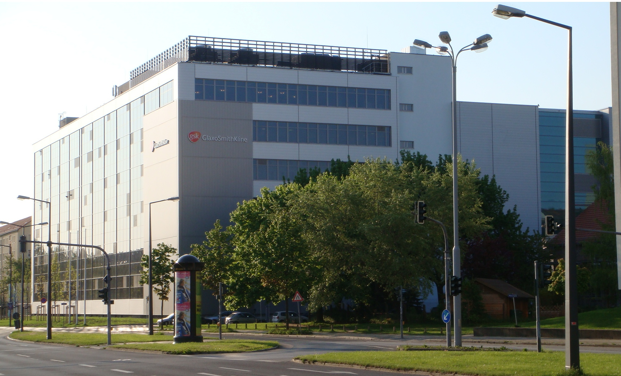 GSK Biologicals Dresden, formerly known as Sächsisches Serumwerk Dresden, north-west corner of the building.